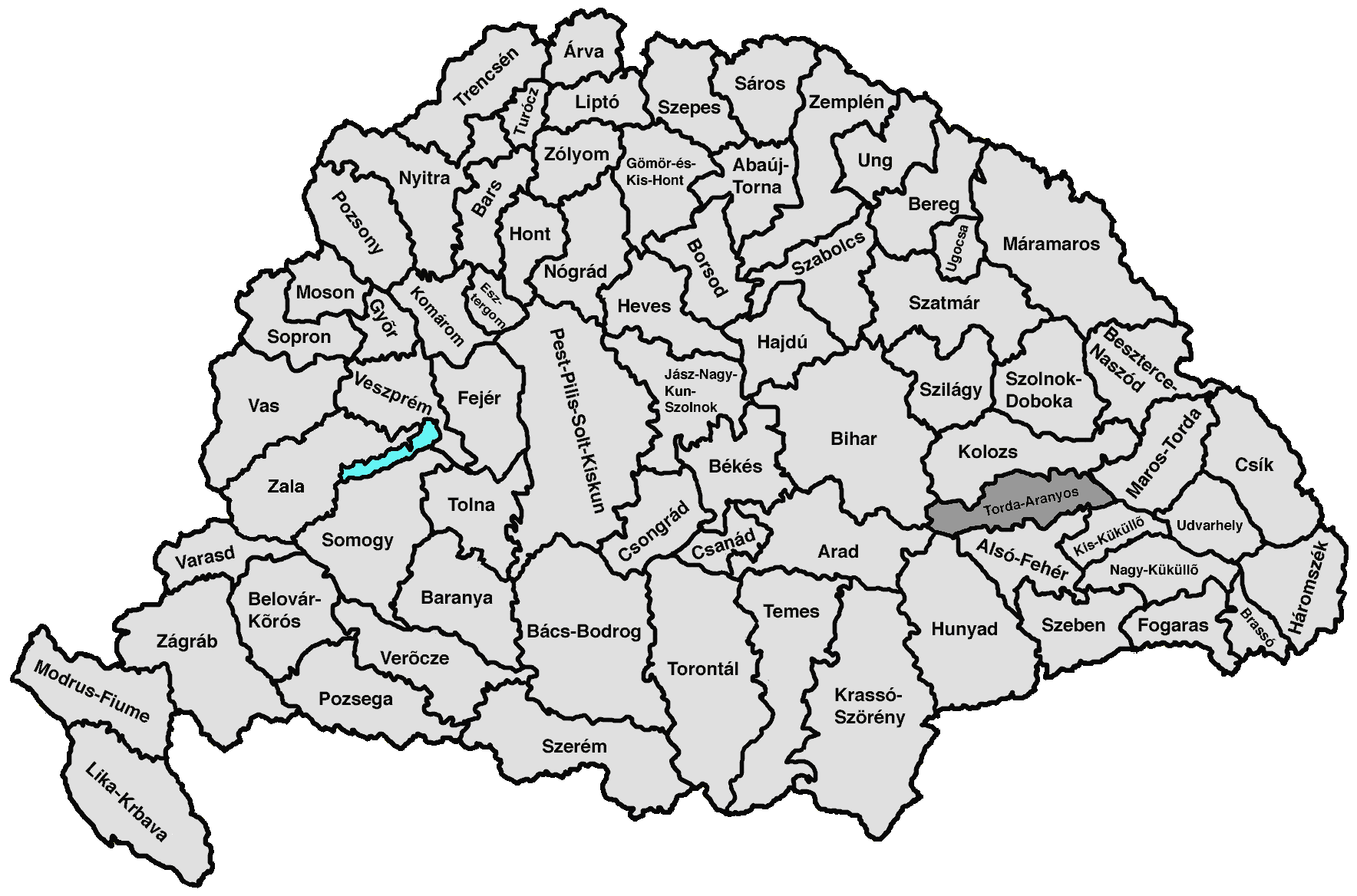 own edit of Image:Zala.png